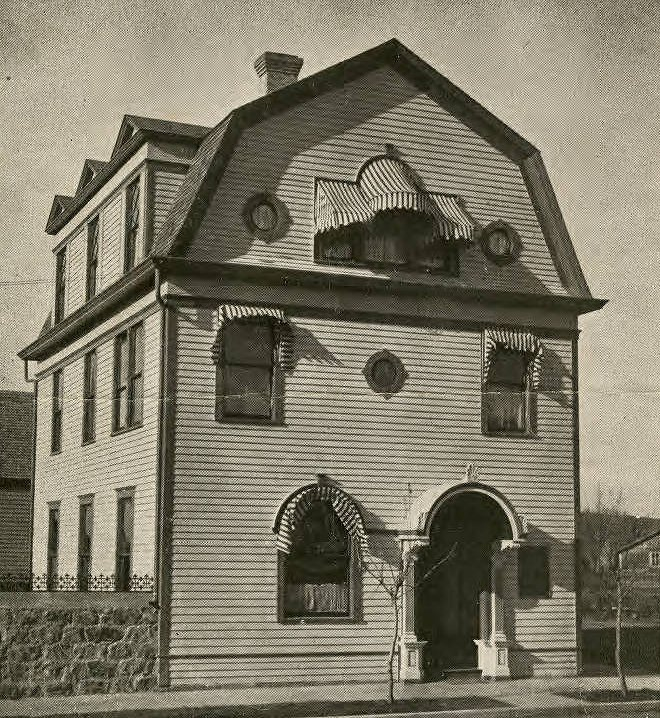 Minnewaska Hospital, Starbuck, Minnesota, USA, circa 1910. Viewed from the southeast. Demolished in January 2013.